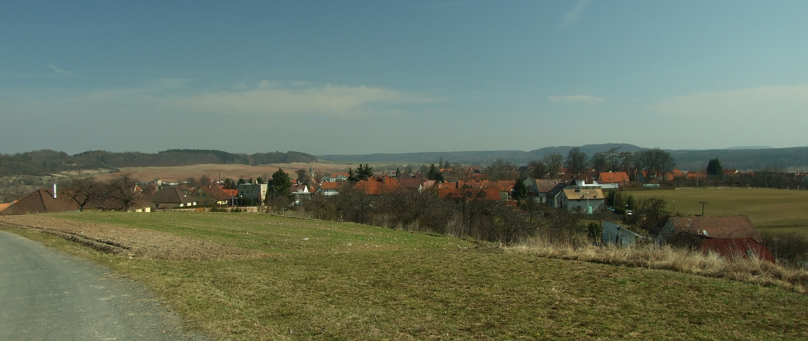 Town of Řevničov seen from a hill located west from the entire town, Rakovník District. Central Bohemian Region, CZ